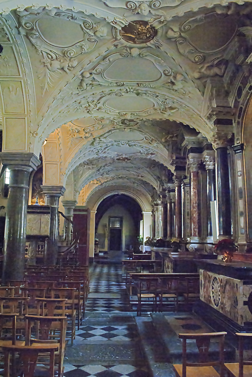 The Duomo of Gorizia, Italy; view of the interior.